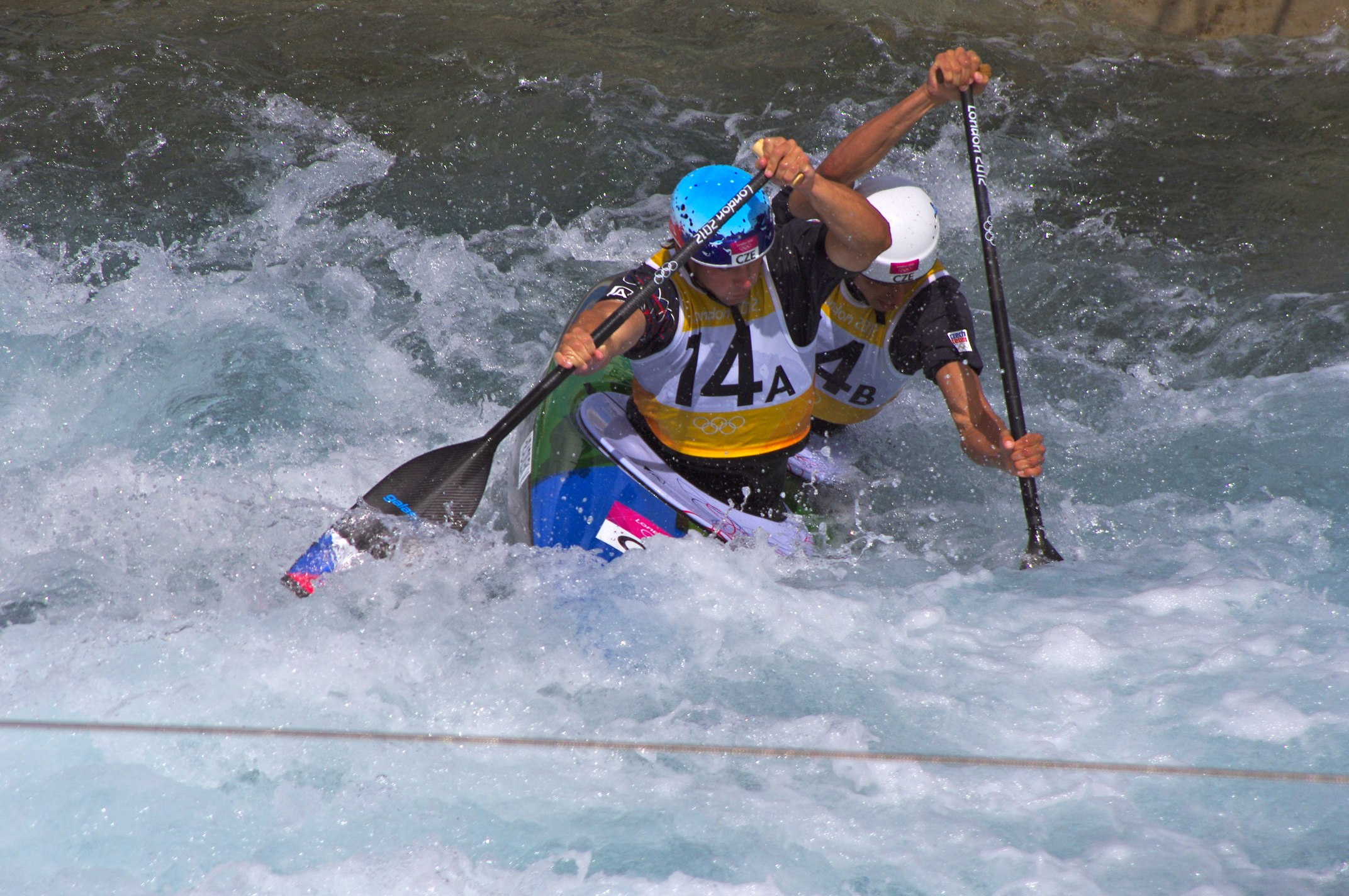 Canoeing at the 2012 Summer Olympics – Men's slalom C-2 Vavřinec Hradilek (14A) and Stanislav Ježek (14B) (CZE)